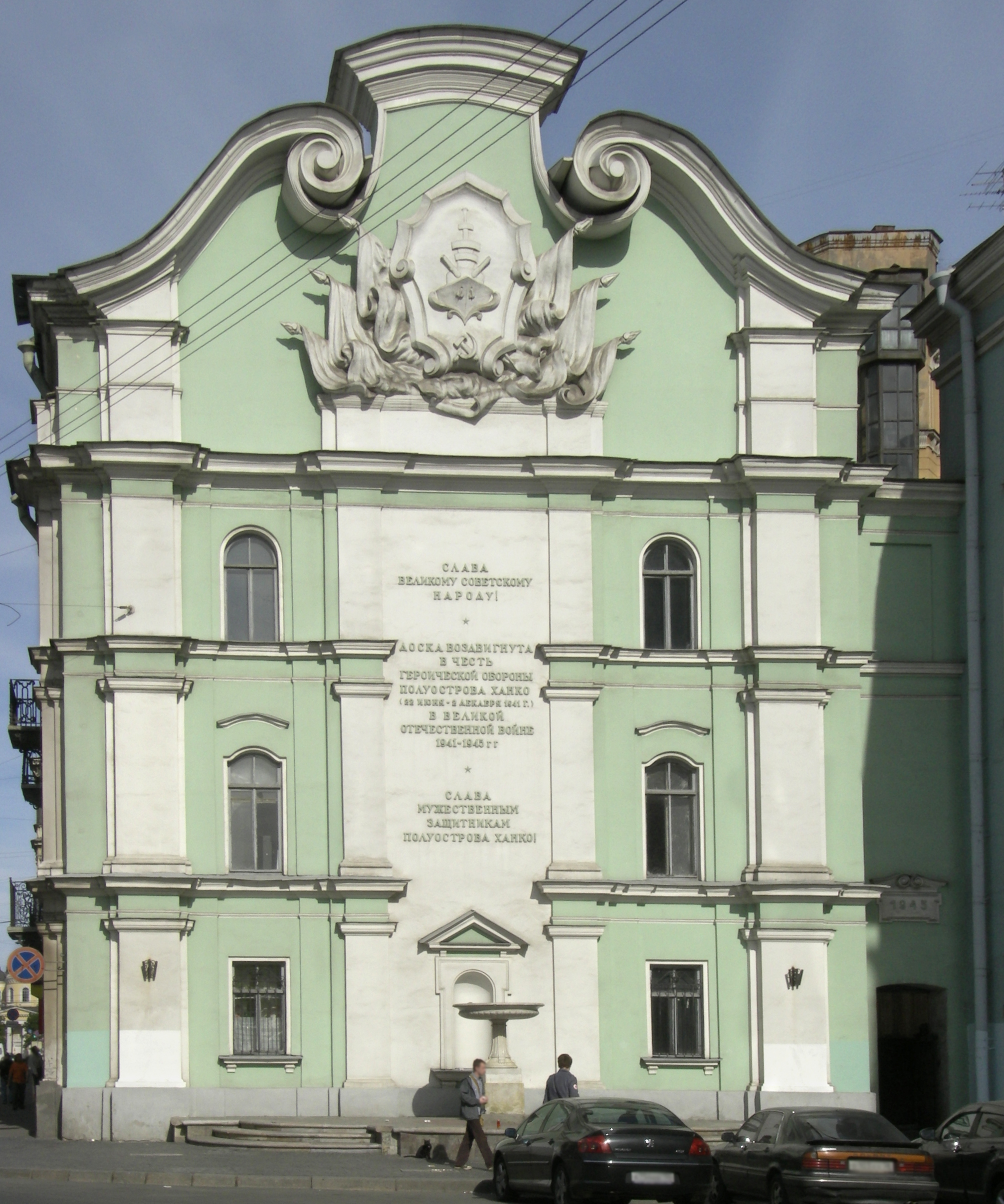 Memorial Inscription in Saint Petersburg in honor of the defenders of the Hanko Peninsula (1941)